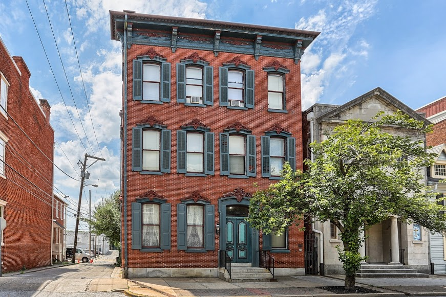 Front view of Smyser-Bair House